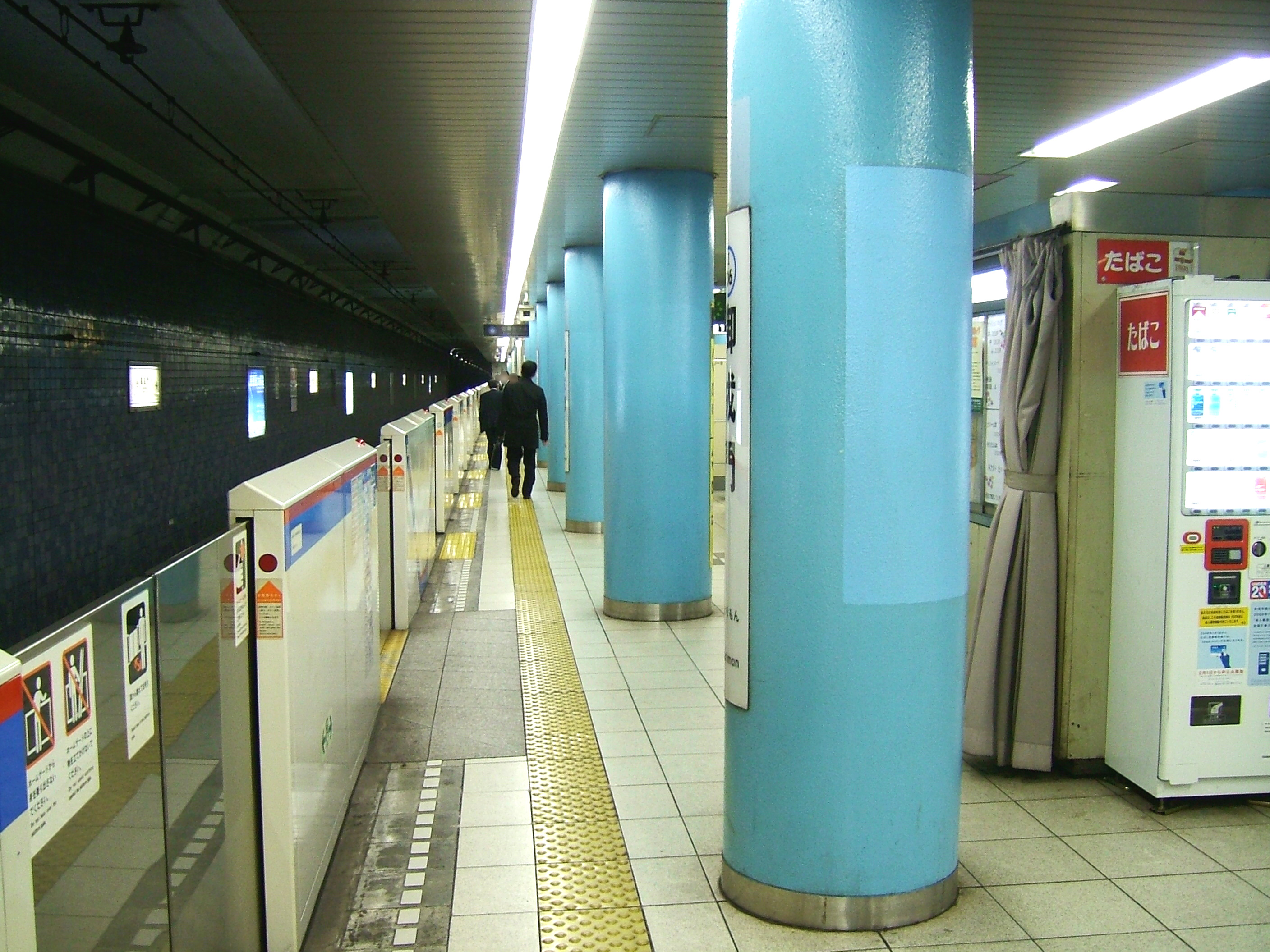 The platform at Onarimon Station on the Toei Mita Line in Minato city, Tokyo, Japan